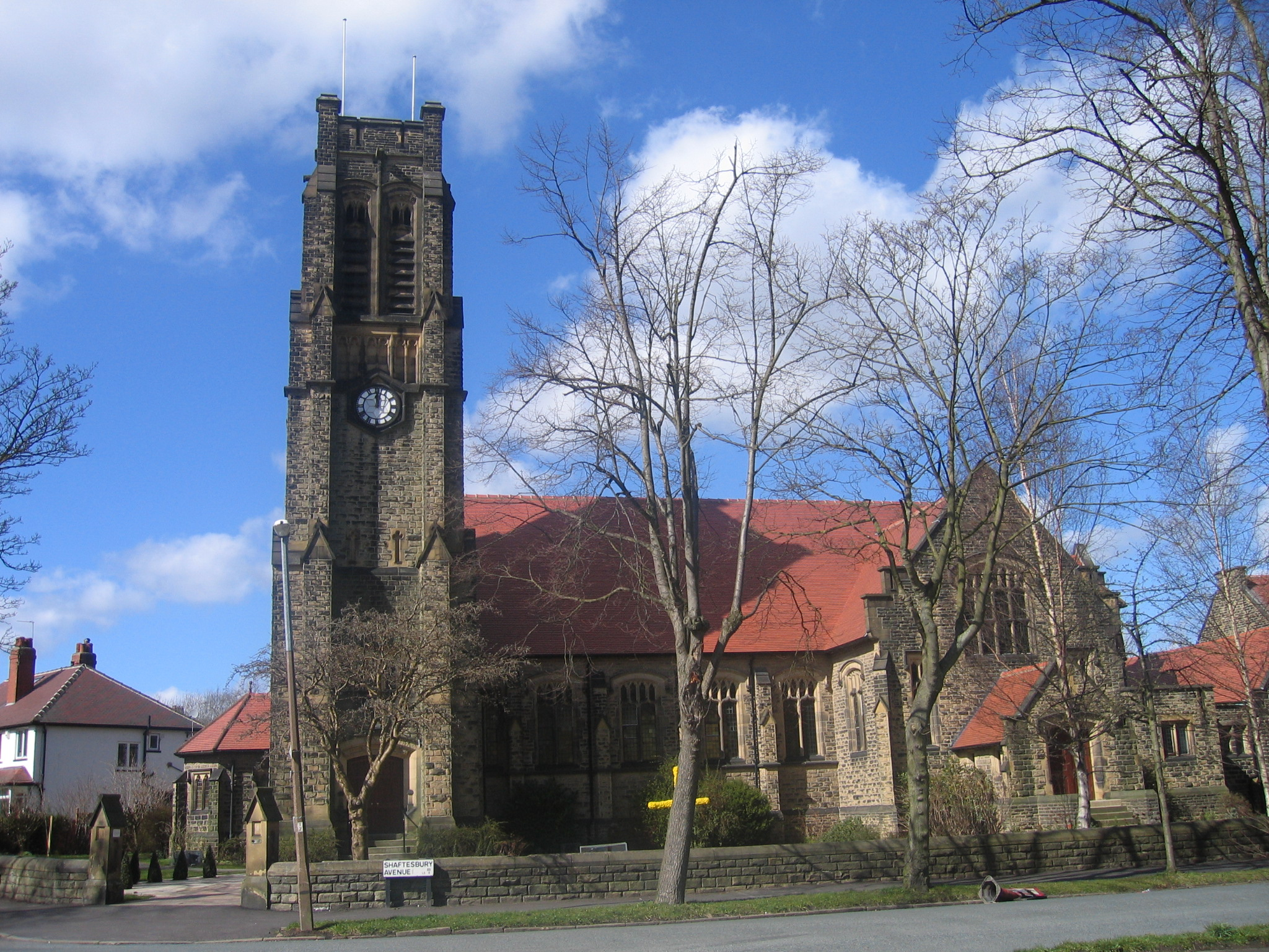 St Andrew's United Reformed Church and Sunday school, Shaftesbury Avenue, Leeds, West Yorkshire, seen from the southeast